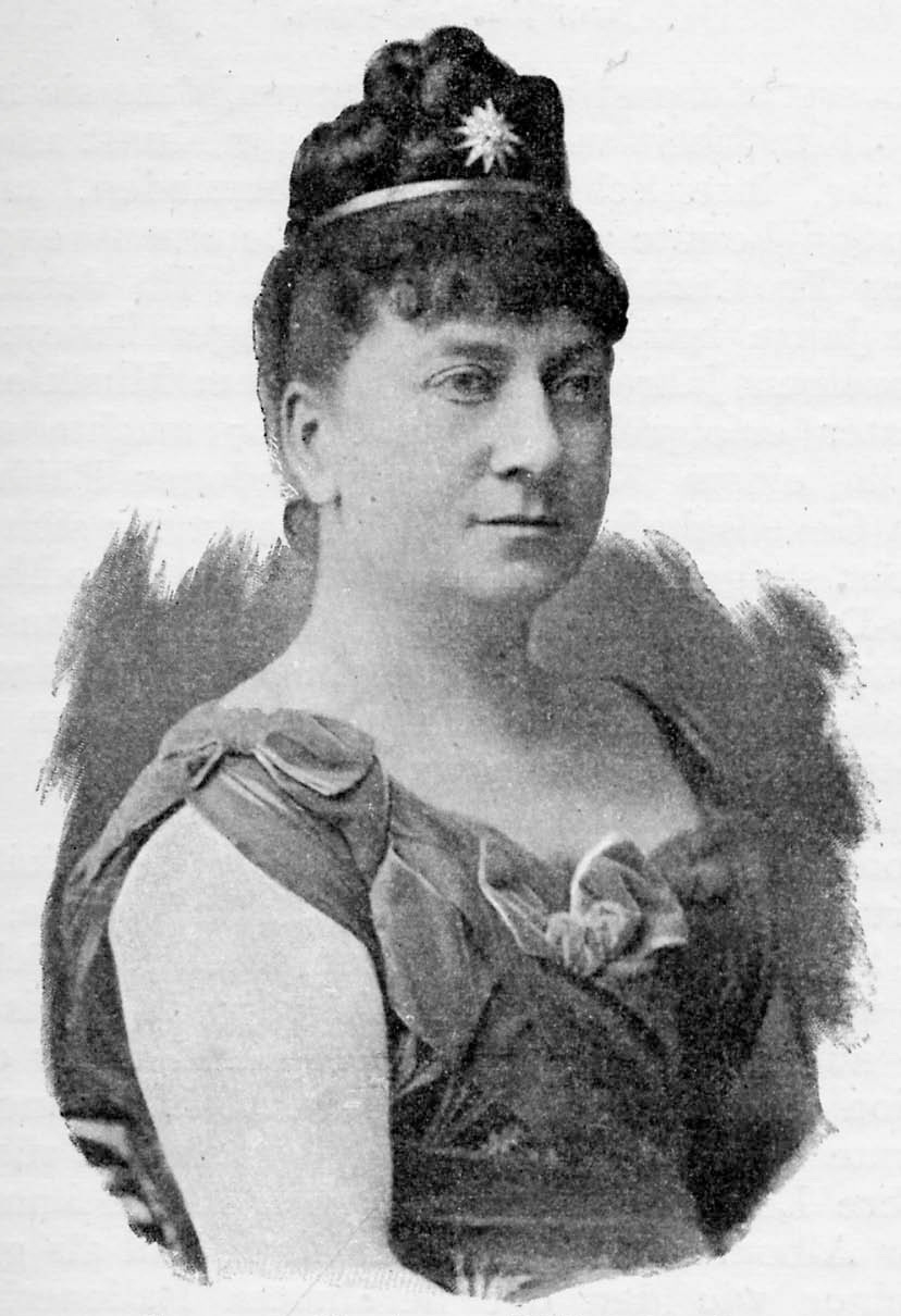 Janet Patey-Whytock